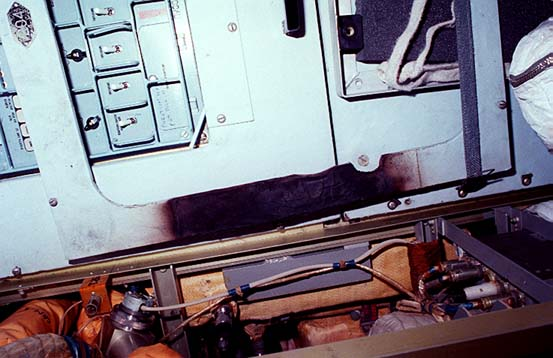 Space Station Mir - Damage to Mir's internal panels following the fire